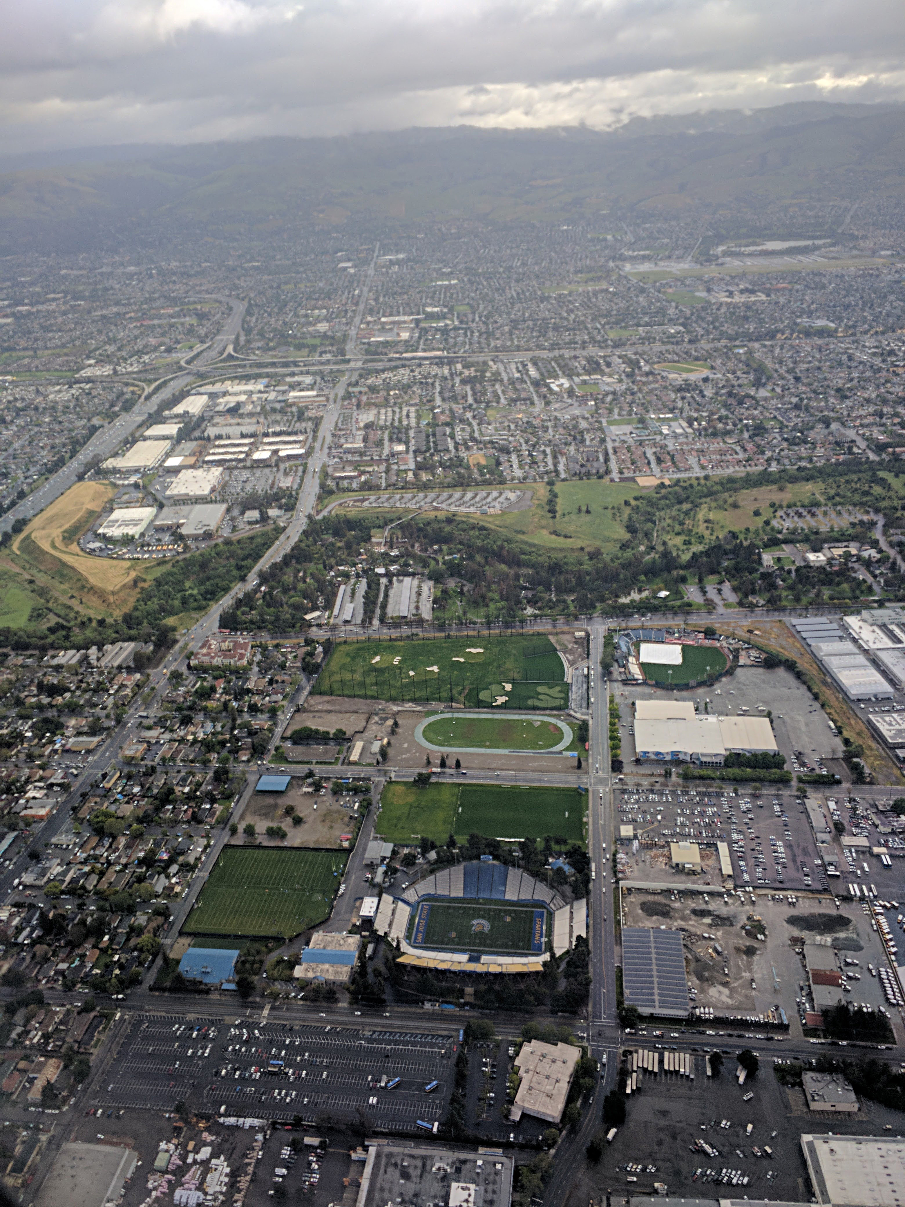 CEFCU Stadium, or Spartan Stadium, at San Jose State University, and neighborhood, California, aerial from the southwest